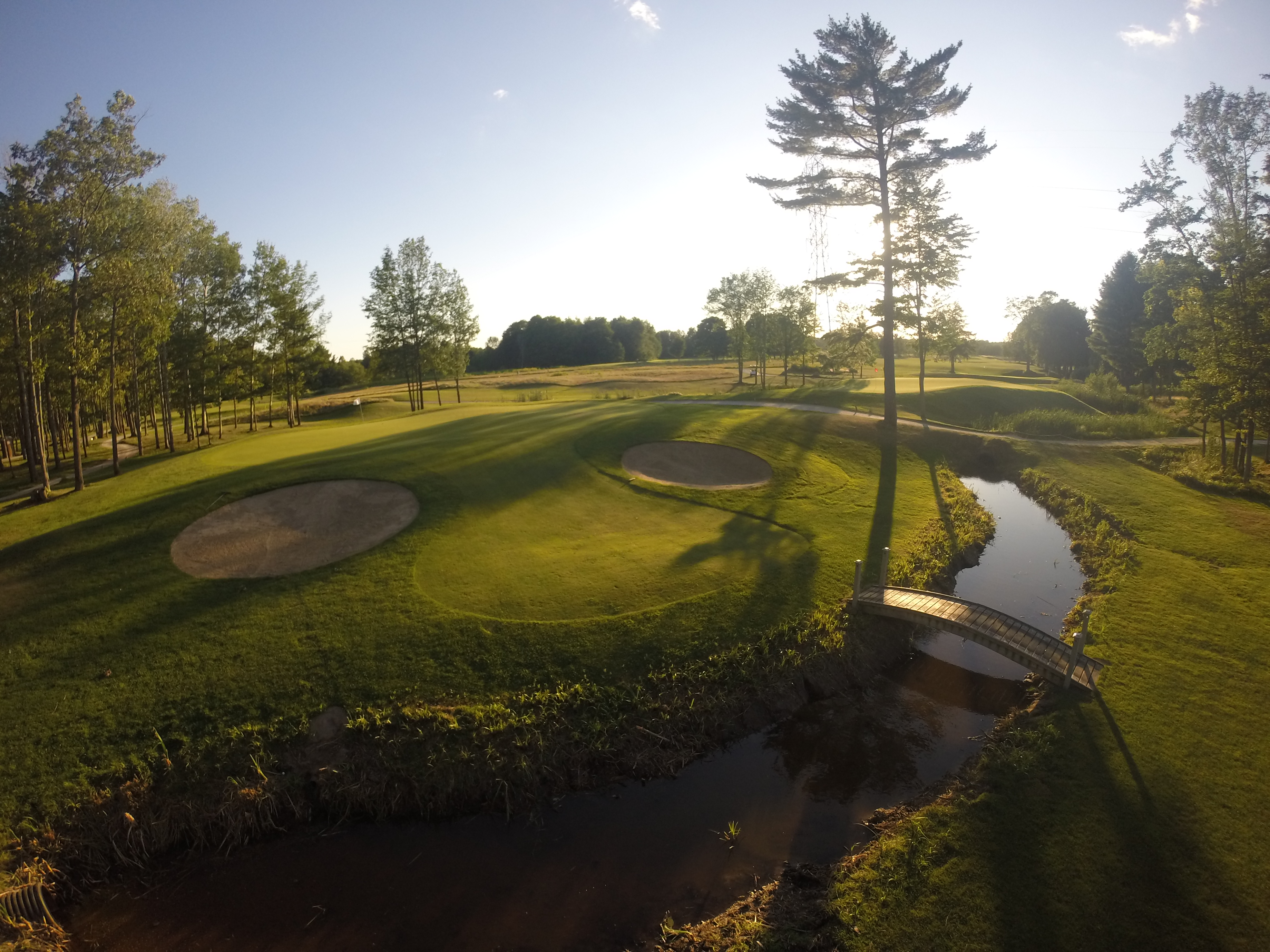 The first hole on the west course features a meandering creek that is in play throughout the hole.